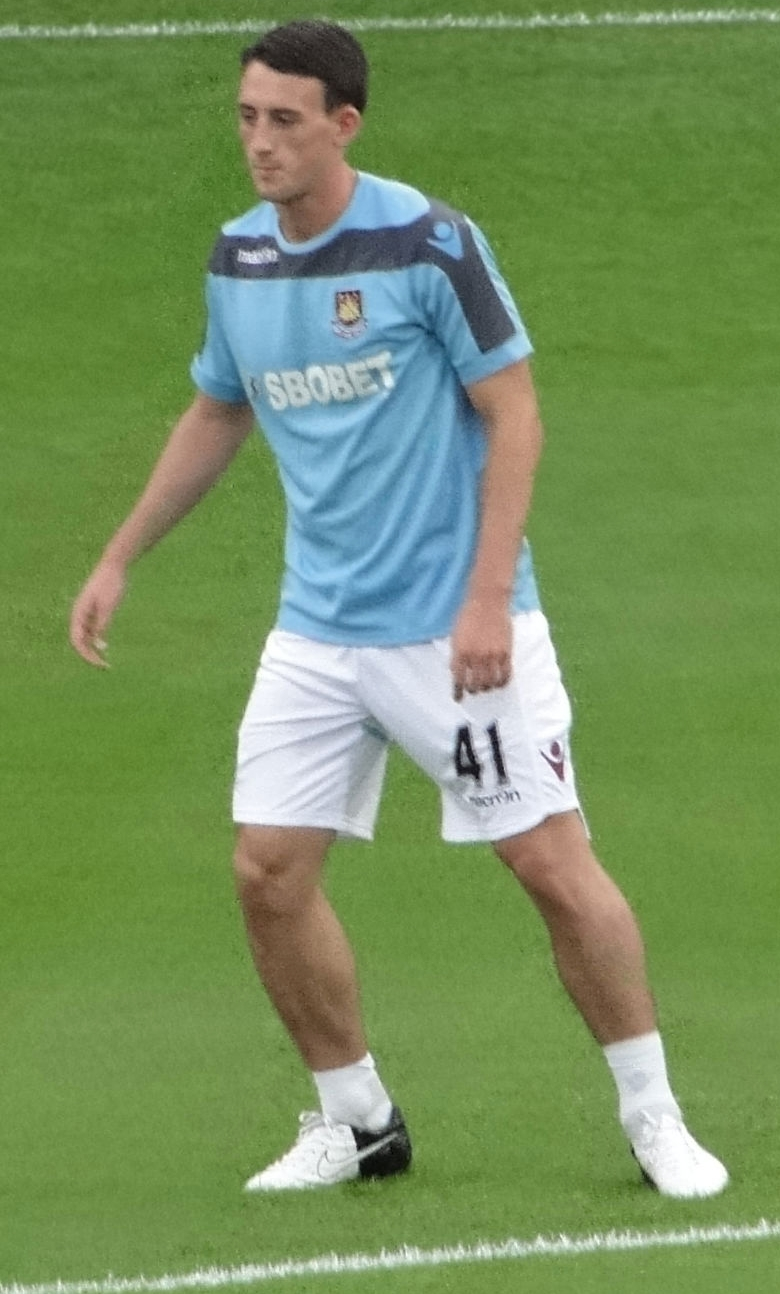 West Ham United player Callum Driver warming-up before their League Cup game against Crewe Alexandra, August 2012 at The Boleyn Ground.